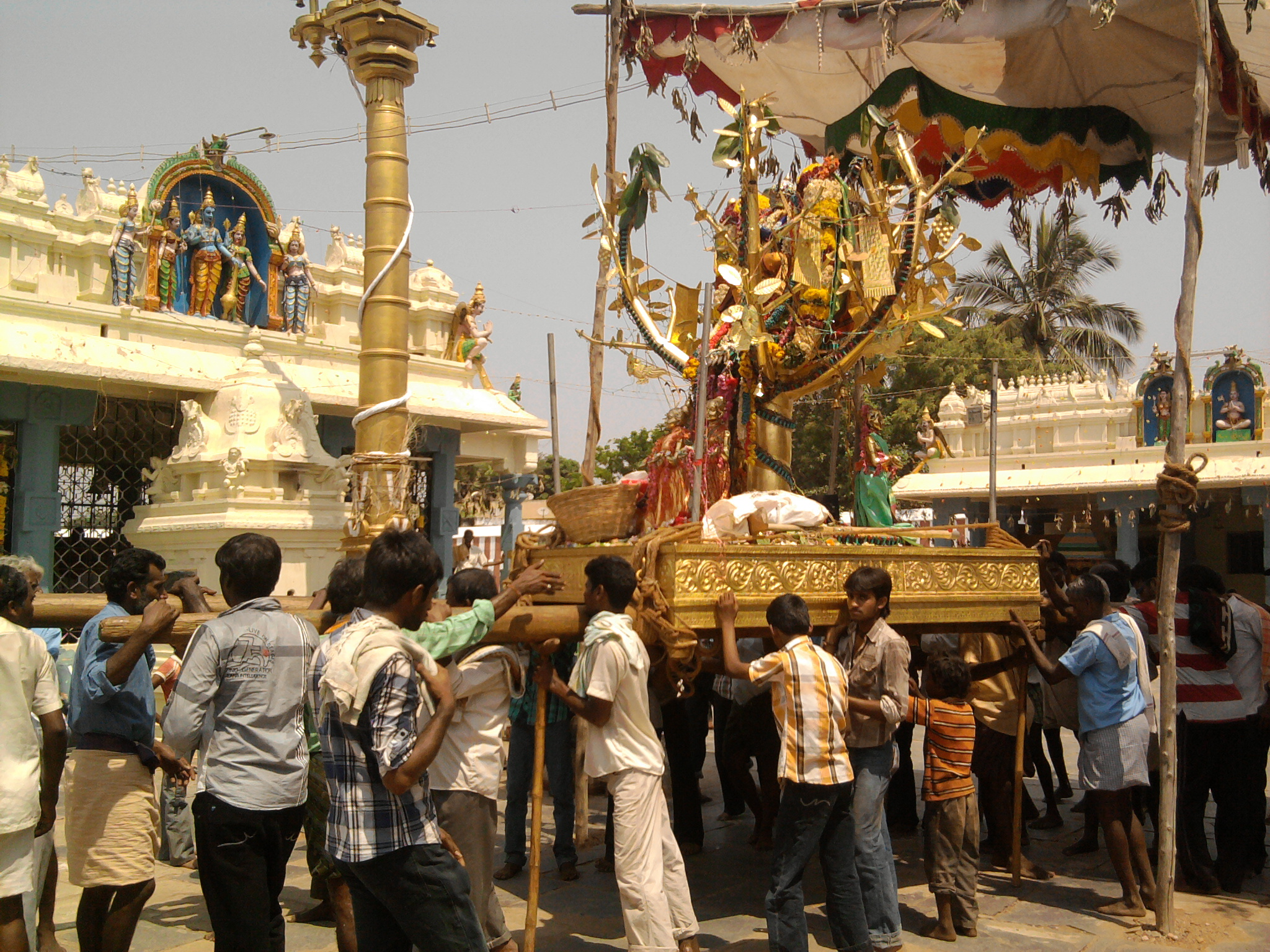 Ponnamaanu utsav